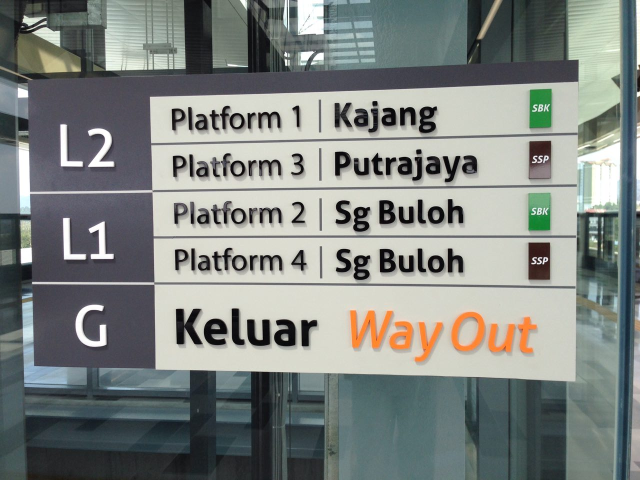 MRT SBK Kwasa Damansara level & platform signage